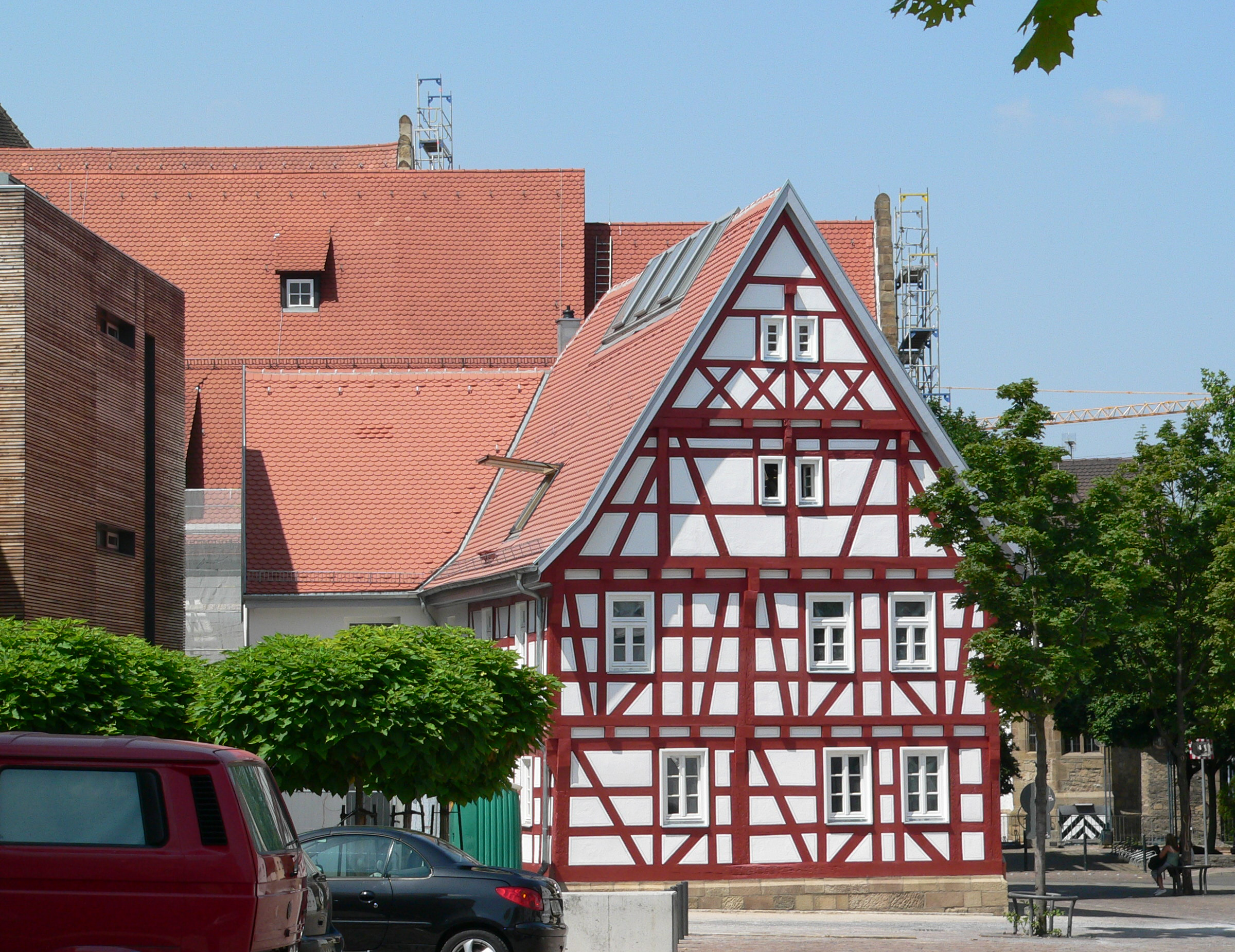 Museum of local history of Neckarsulm/Germany